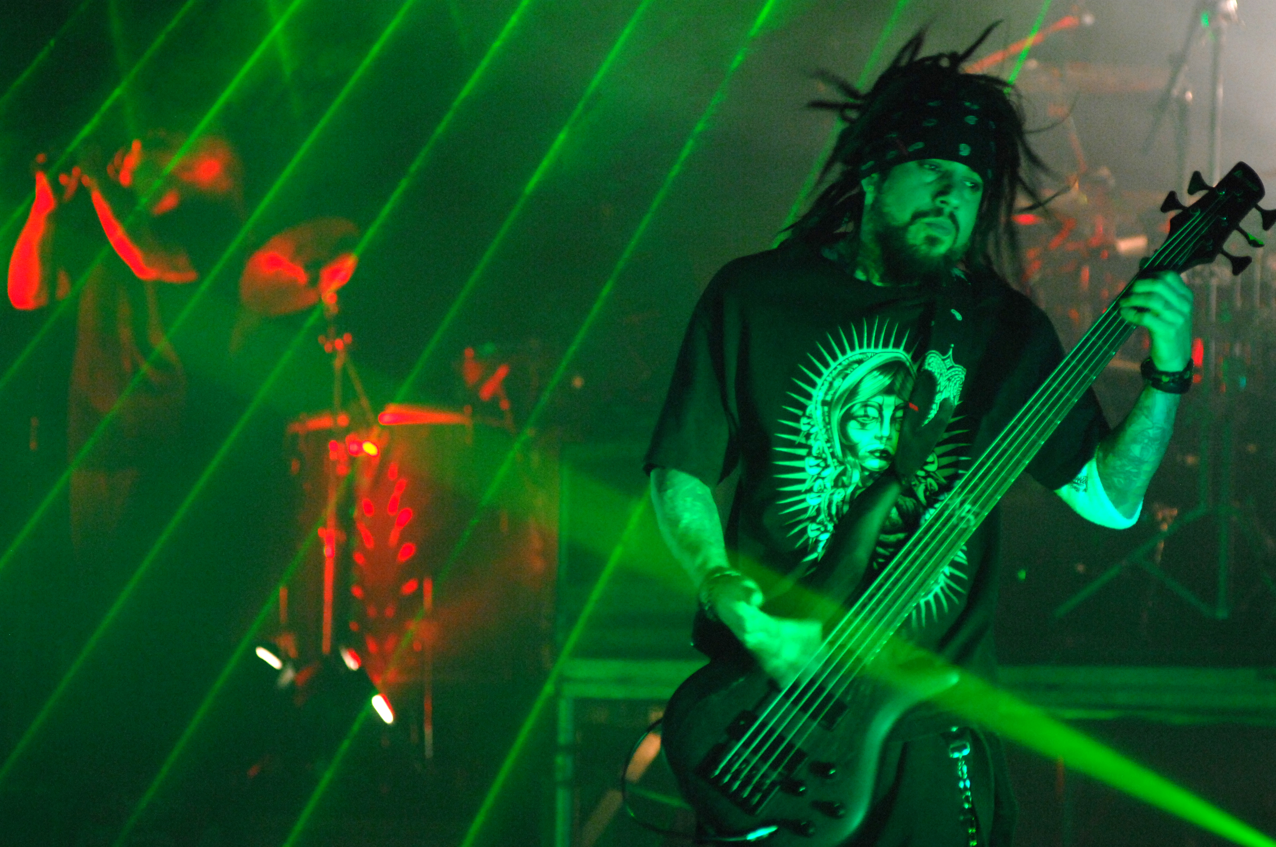 AVIANO AIR BASE, Italy -- Airmen, Soldiers, DoD civlians, and local nationals enjoy a Korn and Flyleaf concert at the Palasport in Pordenone, Italy, Feb. 22, 2008. Korn is a band from Bakersfield, California, and are credited with creating and popularizing the nu metal genre. Along with other bands at the time, they have also inspired many nu metal and alternative metal bands throughout the mid 1990s and early 2000s.The band's catalogue consists of nice consecutive debuts. To date, Korn has sold over 30 million albums worldwide, including 16.5 million in the U.S. Korn earned 6 Grammy Award nominations- two of which they have won.